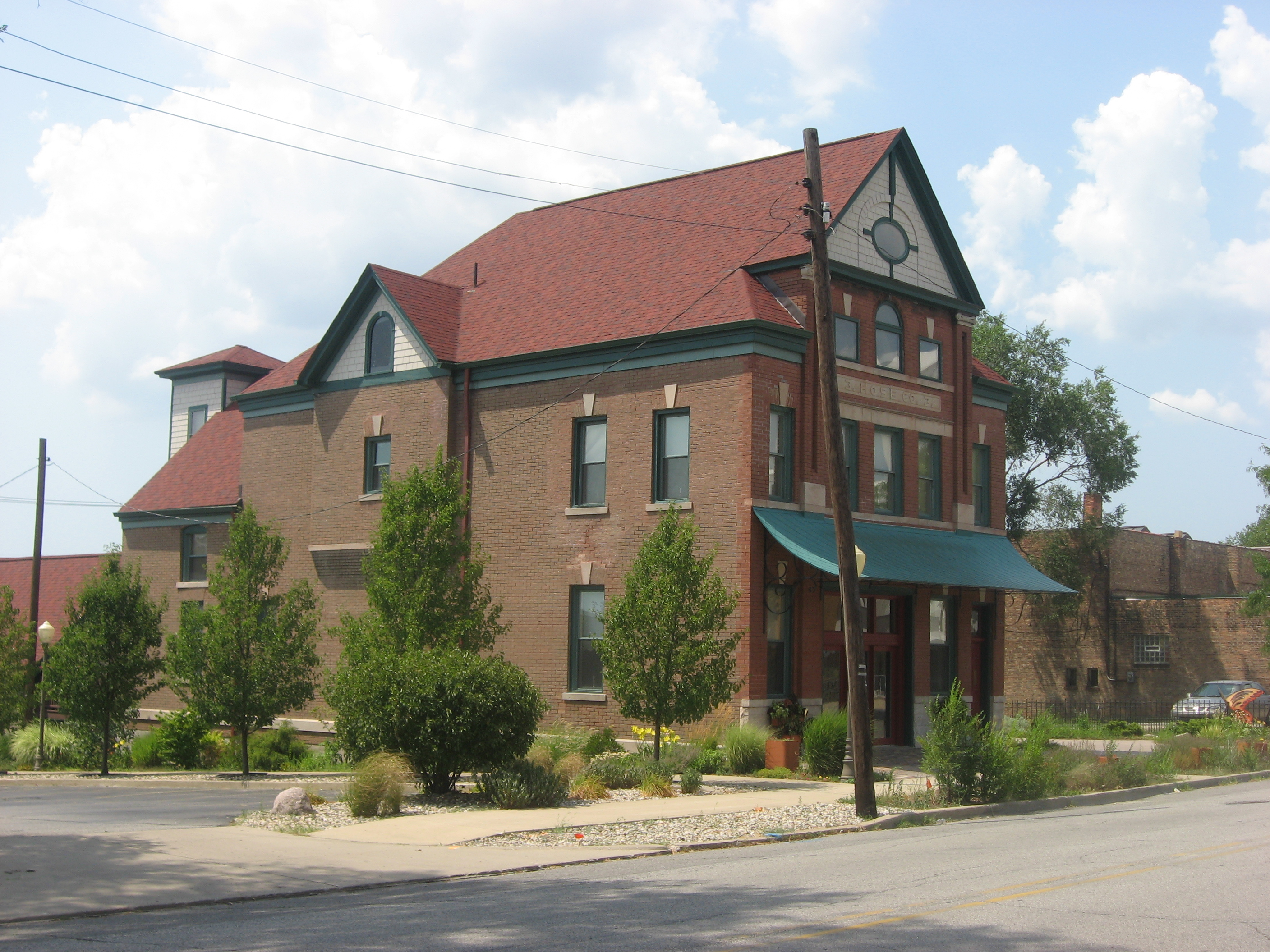 Front and southern side of the former Fire House No. 3, located at 219 N. Hill Street in South Bend, Indiana, United States. Built in 1892, it is listed on the National Register of Historic Places.